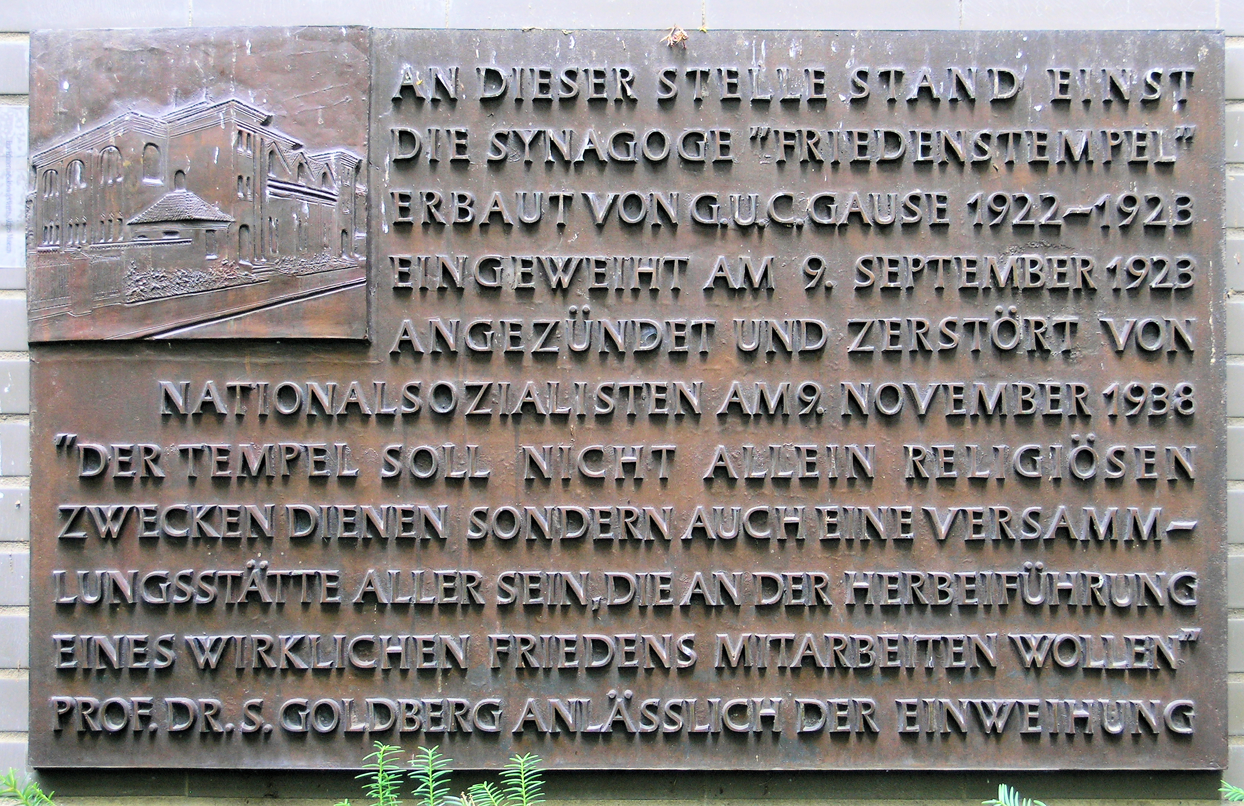 Memorial plaque, Synagoge Friedenstempel, Markgraf-Albrecht-Straße 11, Berlin-Halensee, Germany